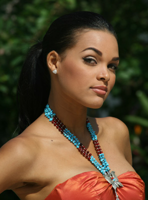 Miss Dominican Republic 2007 Ada de la Cruz. Photo taken in Miss World, Sanya.